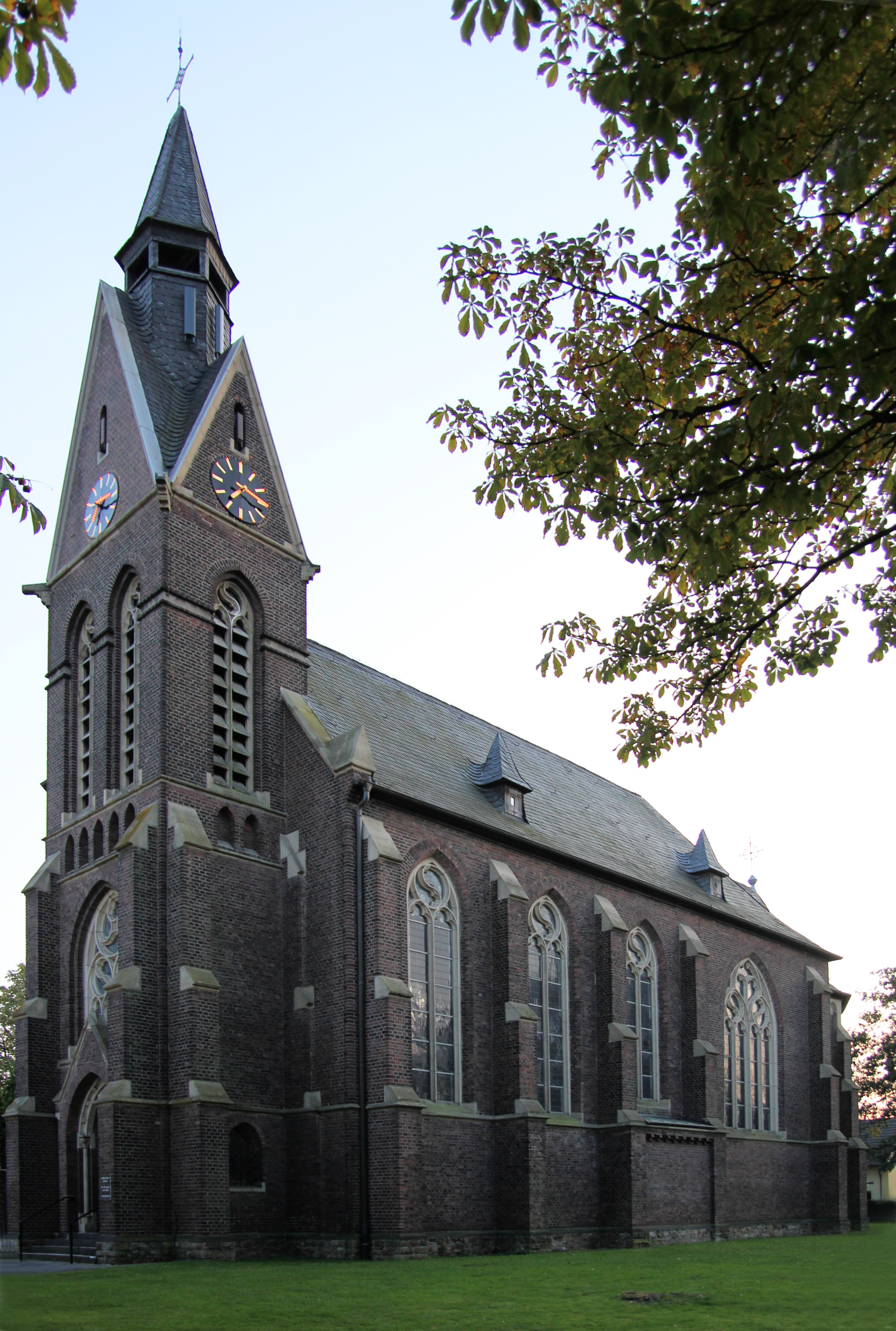 Kath. Kirche Selbeck (St. Theresia)